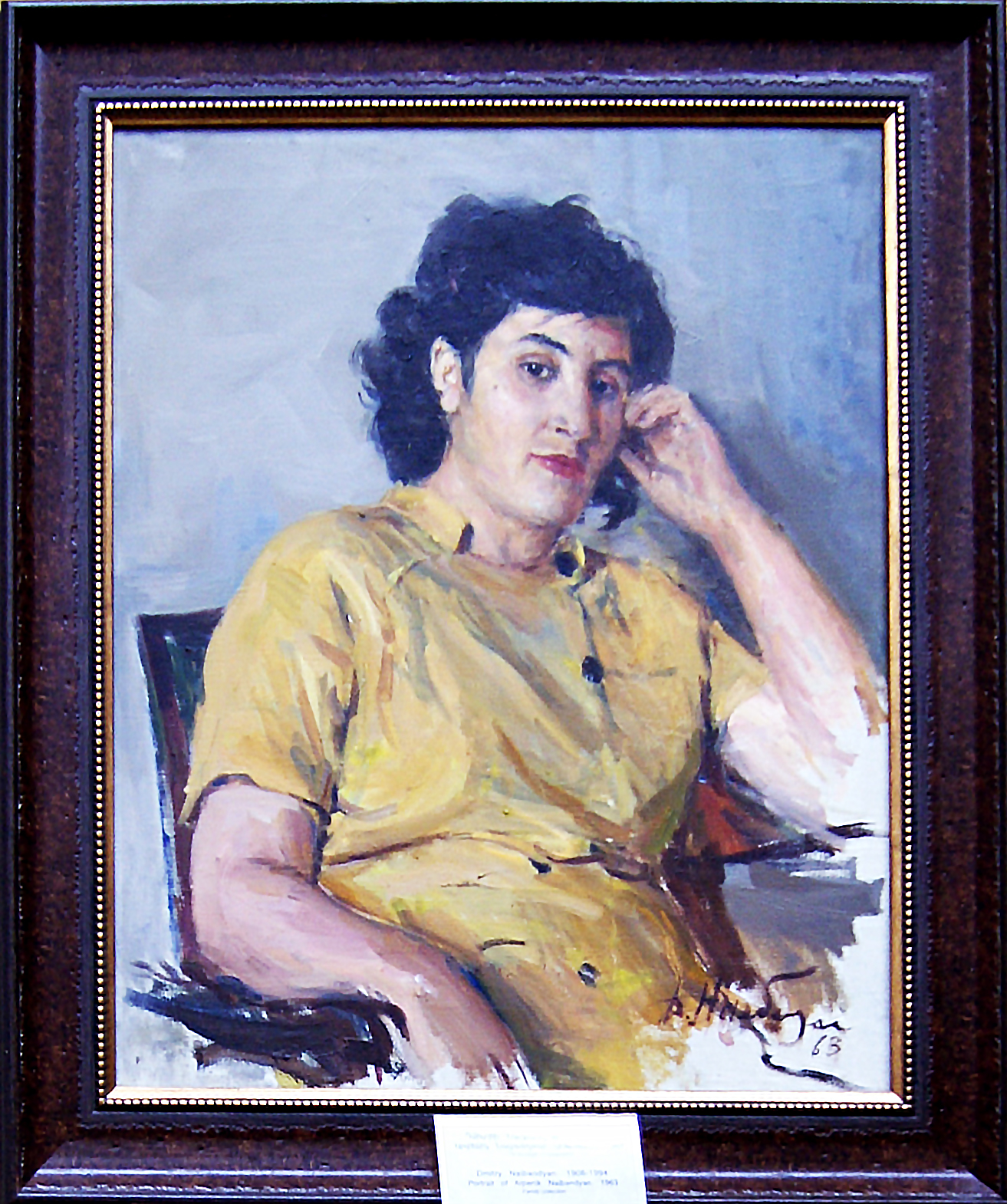 Arpenik Nalbandyan. The 100th Birth Anniversary Exhibition at National Gallery of Armenia.